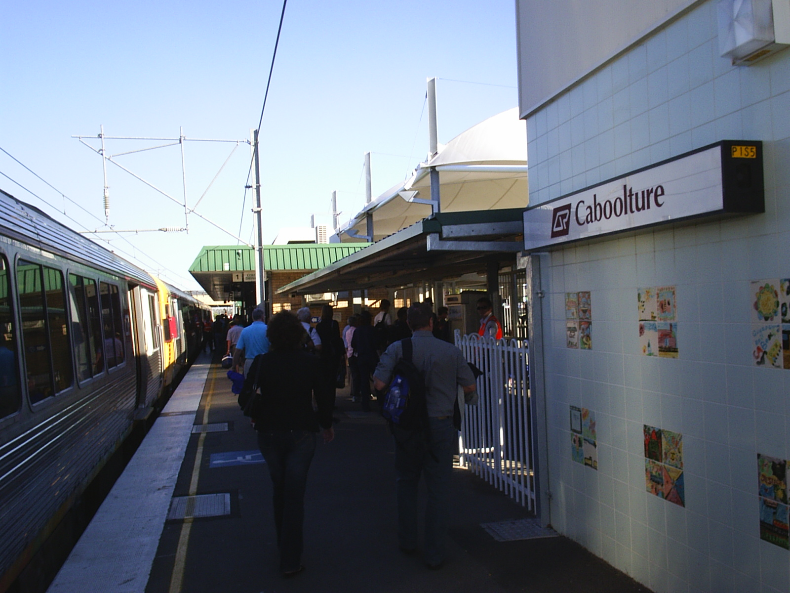 QR Caboolture Railway Station on 07/09/06. looking towards the City. By Qld matt 13:21, 7 September 2006 (UTC)